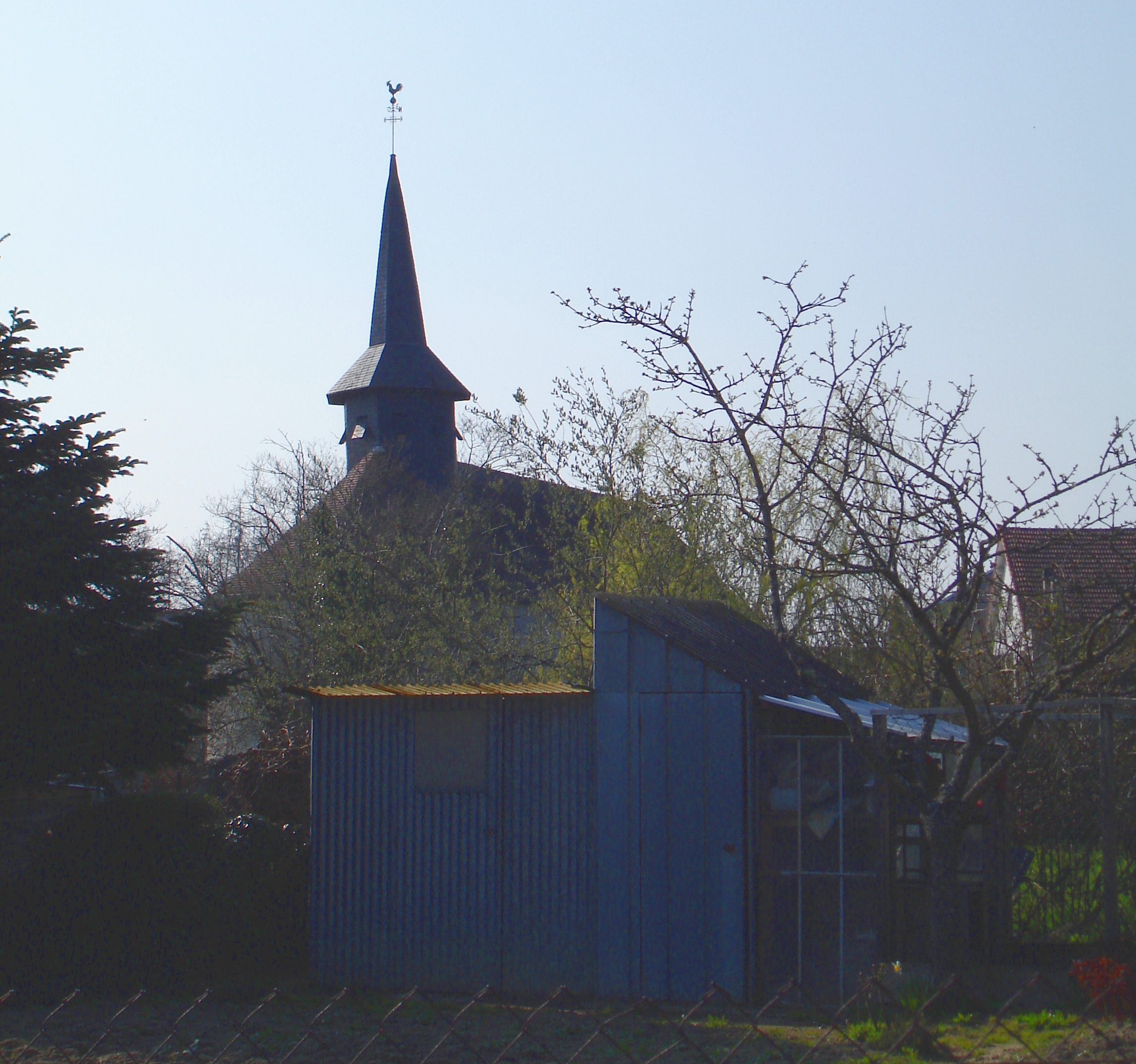 Church of the small town of Budelière, Creuse, France